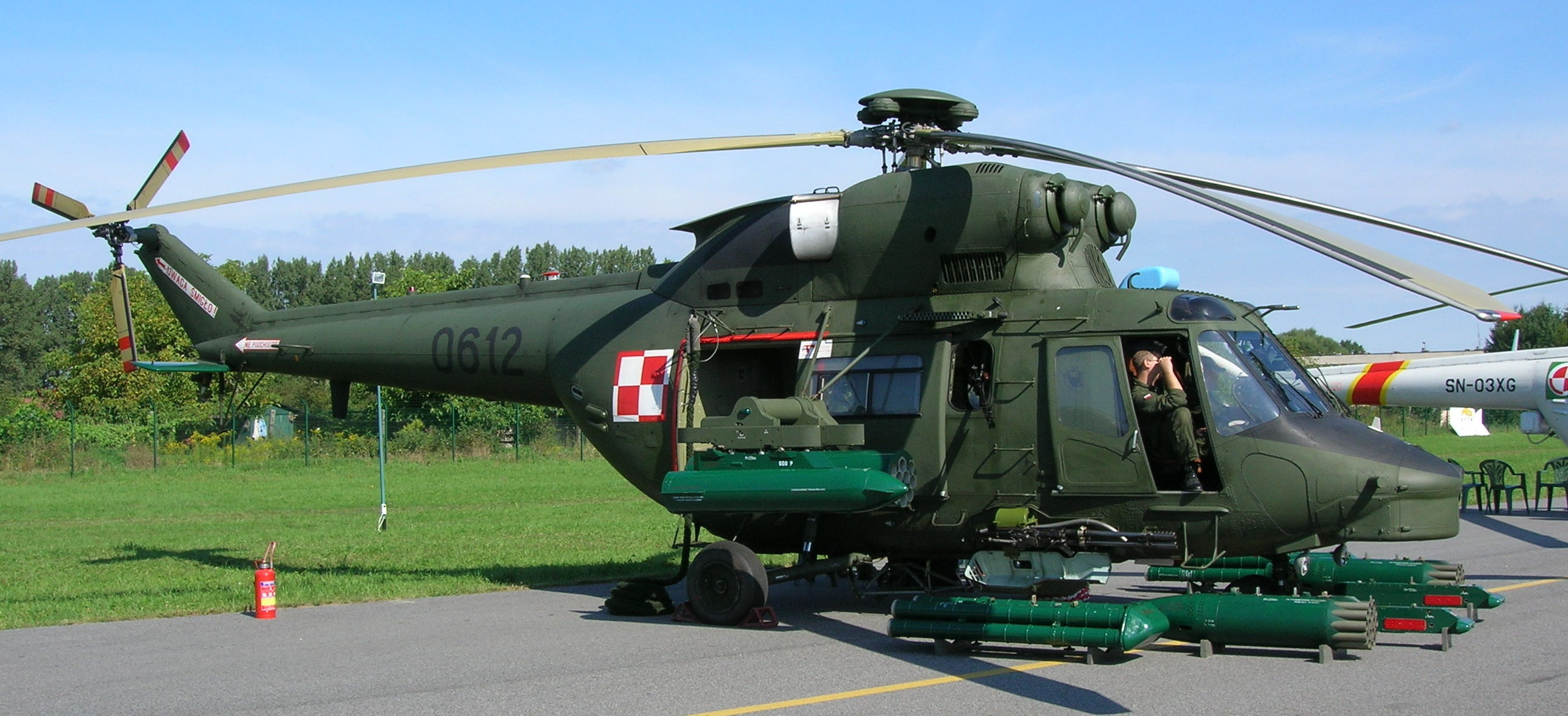 Copyright © 2005 Voytek S Photo taken during Airshow Radom 2005, Poland